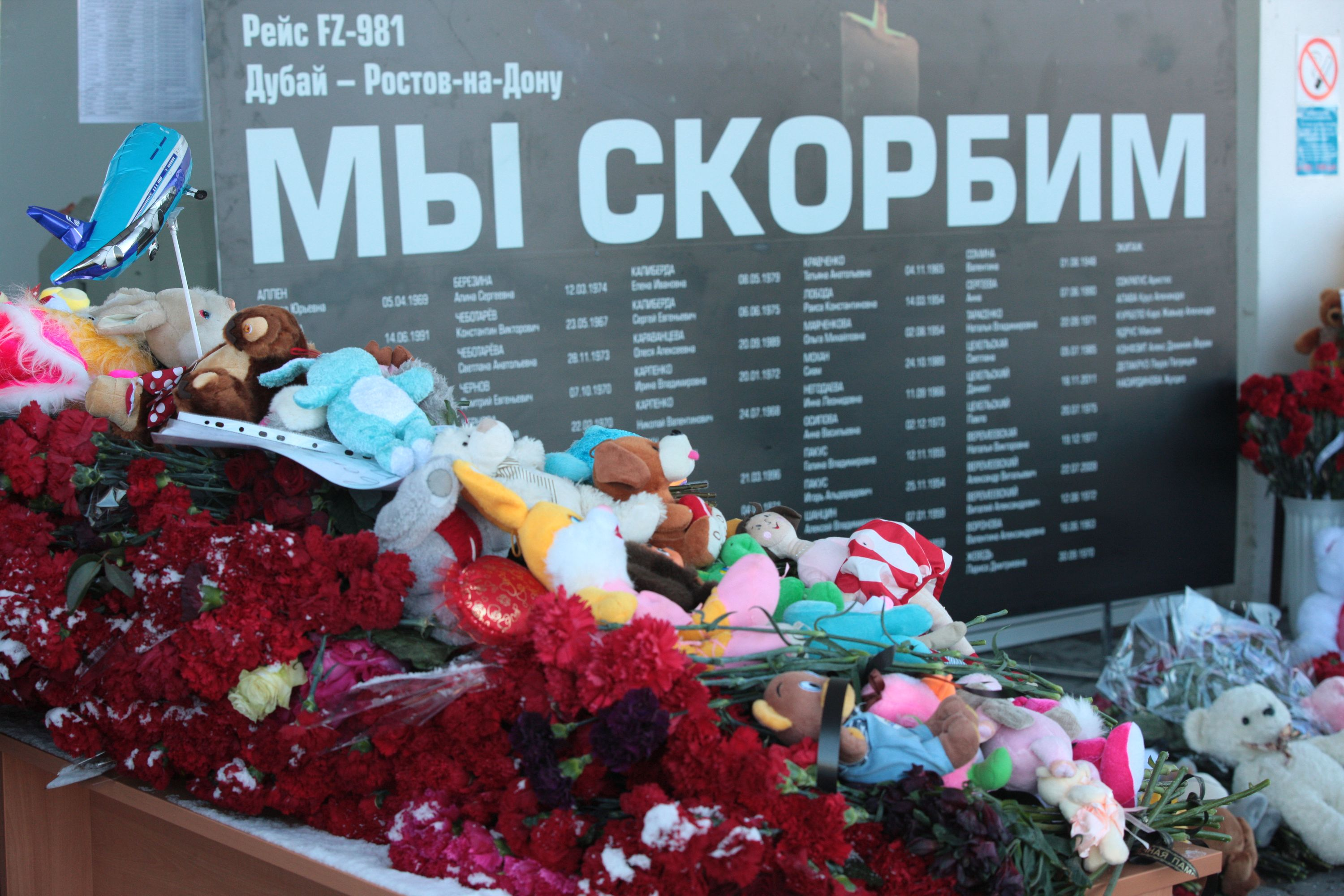 Makeshift memorial at the airport for victims of Flydubai Flight 981 (Rostov-on-Don, Russia)